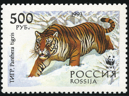 Russian stamp of 1993, tiger.